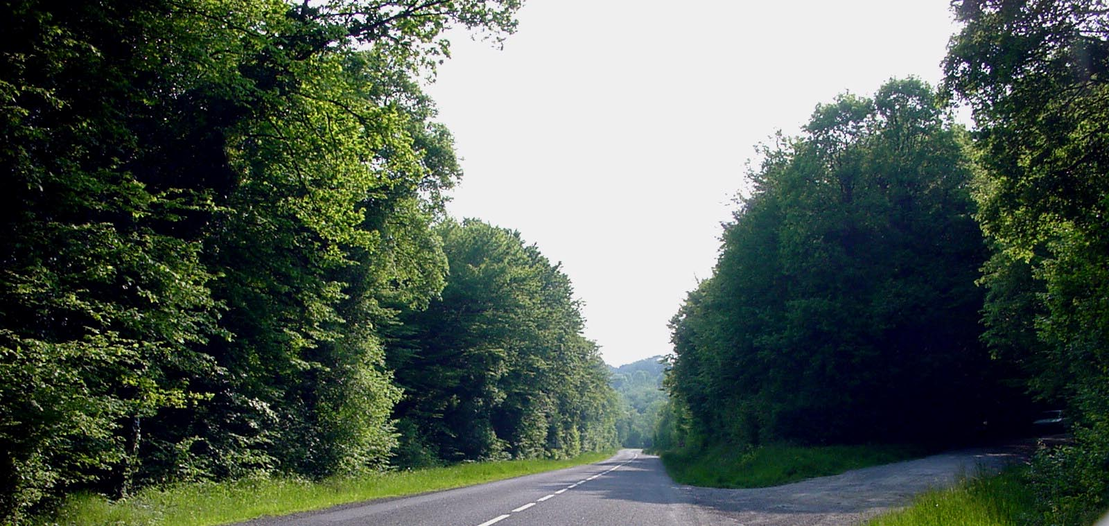 Landscape after reforestation in the Red Zone (zone rouge) after first World War, in Verdun Forest (France).